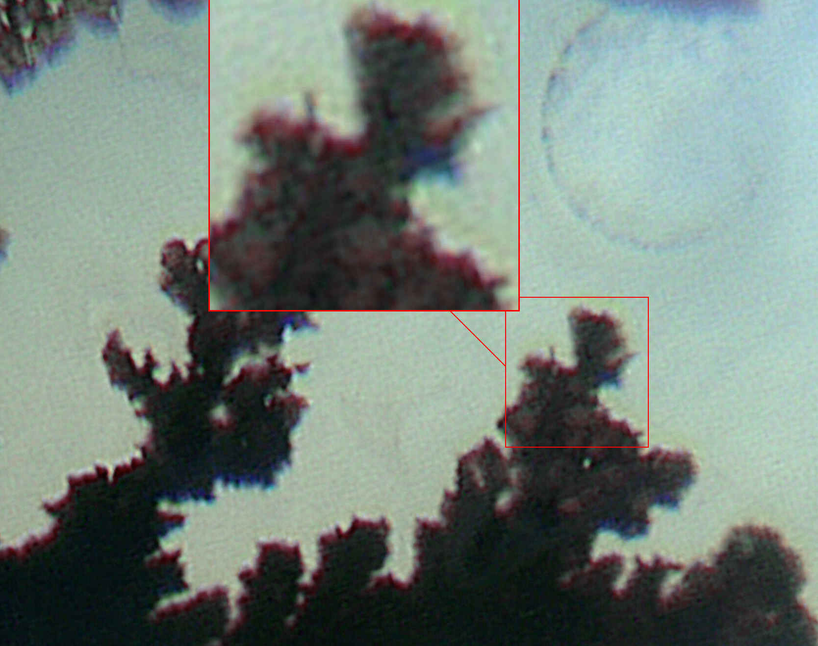 human face in dendritic agate